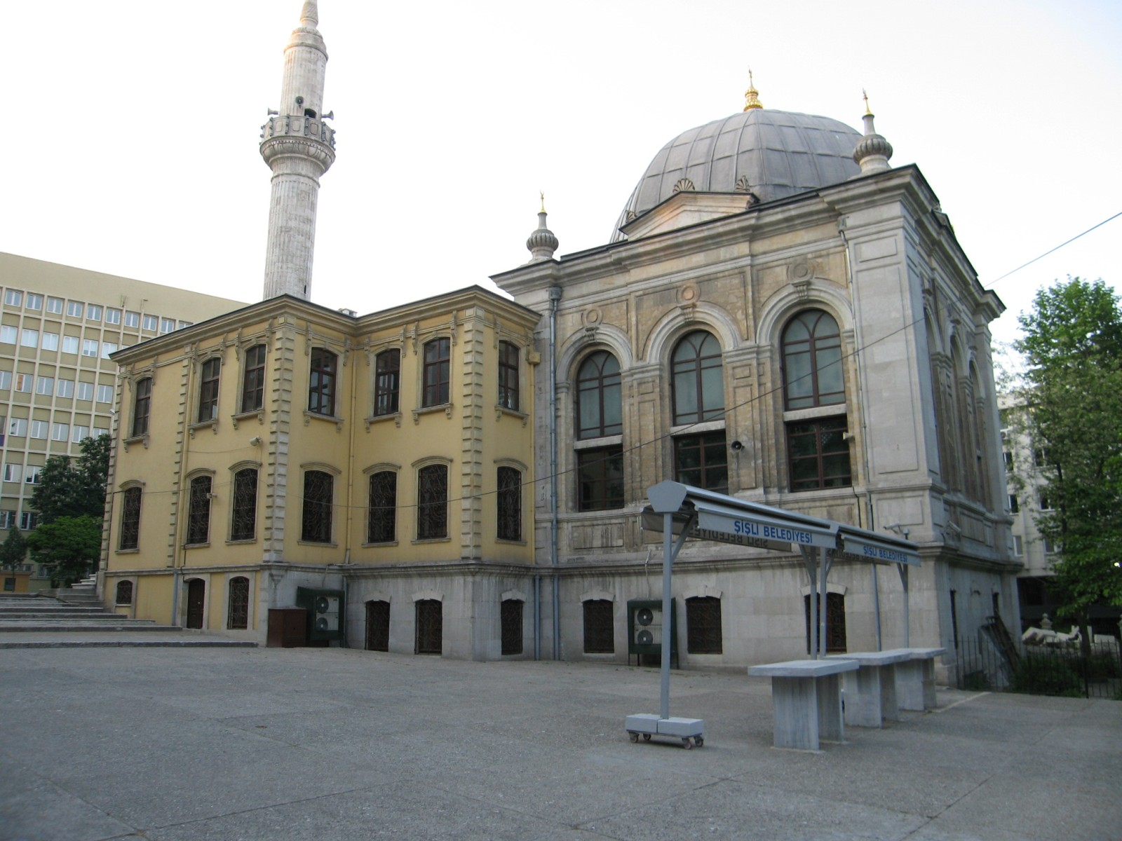 An overall view of the Teşvikiye Mosque in Teşvikiye neighbourhood of Şişli district in Istanbul, Turkey